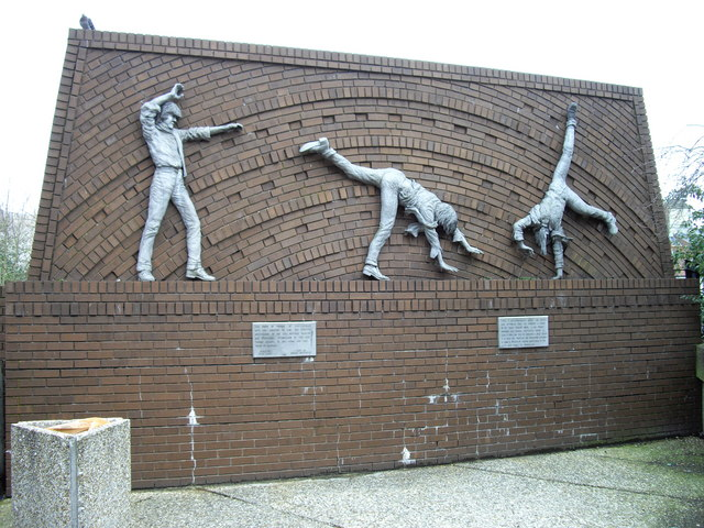 Cartwheeling Boys Mural by Brian Slack outside the Civic Centre commemorating, Düsseldorf’s 1977 gift to Reading.